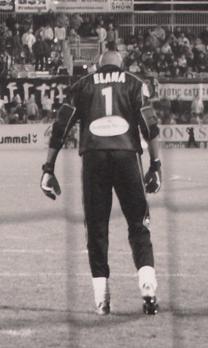 football match FC Rouen - SM Caen, Steeve Elana from behind.